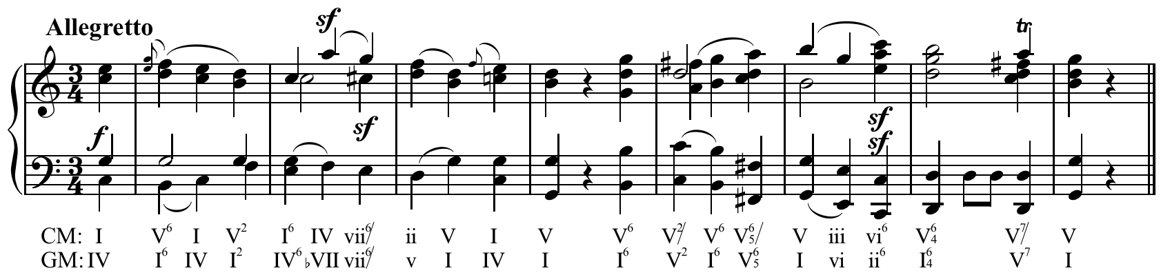 Modulation to the dominant in Haydn's Symphony in C Major, No. 97, Movement III Menuetto, measures 0-8 (piano reduction). Compiled from Murphy, Melcher, and Warch (1973). Music for Study, p.115. ISBN 0-13-607515-0; August Horn's piano reduction; and Howard Chandler Robbins Landon's full score edition. Roman numeral analysis added.